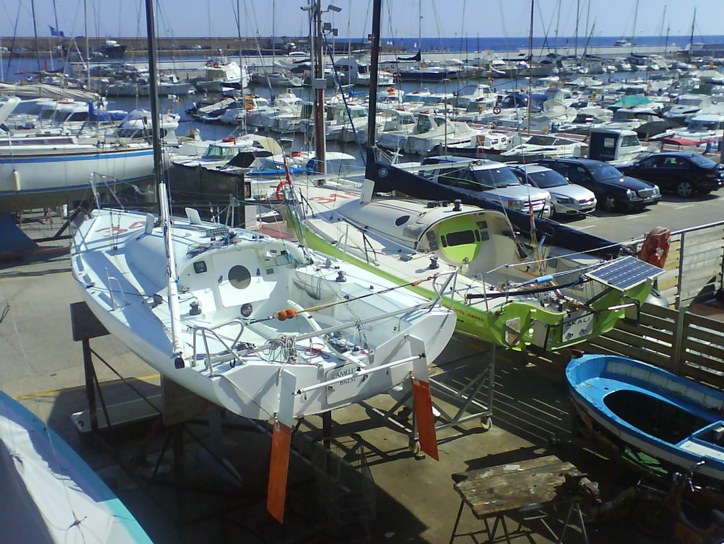 Trans-at 650 sailboats